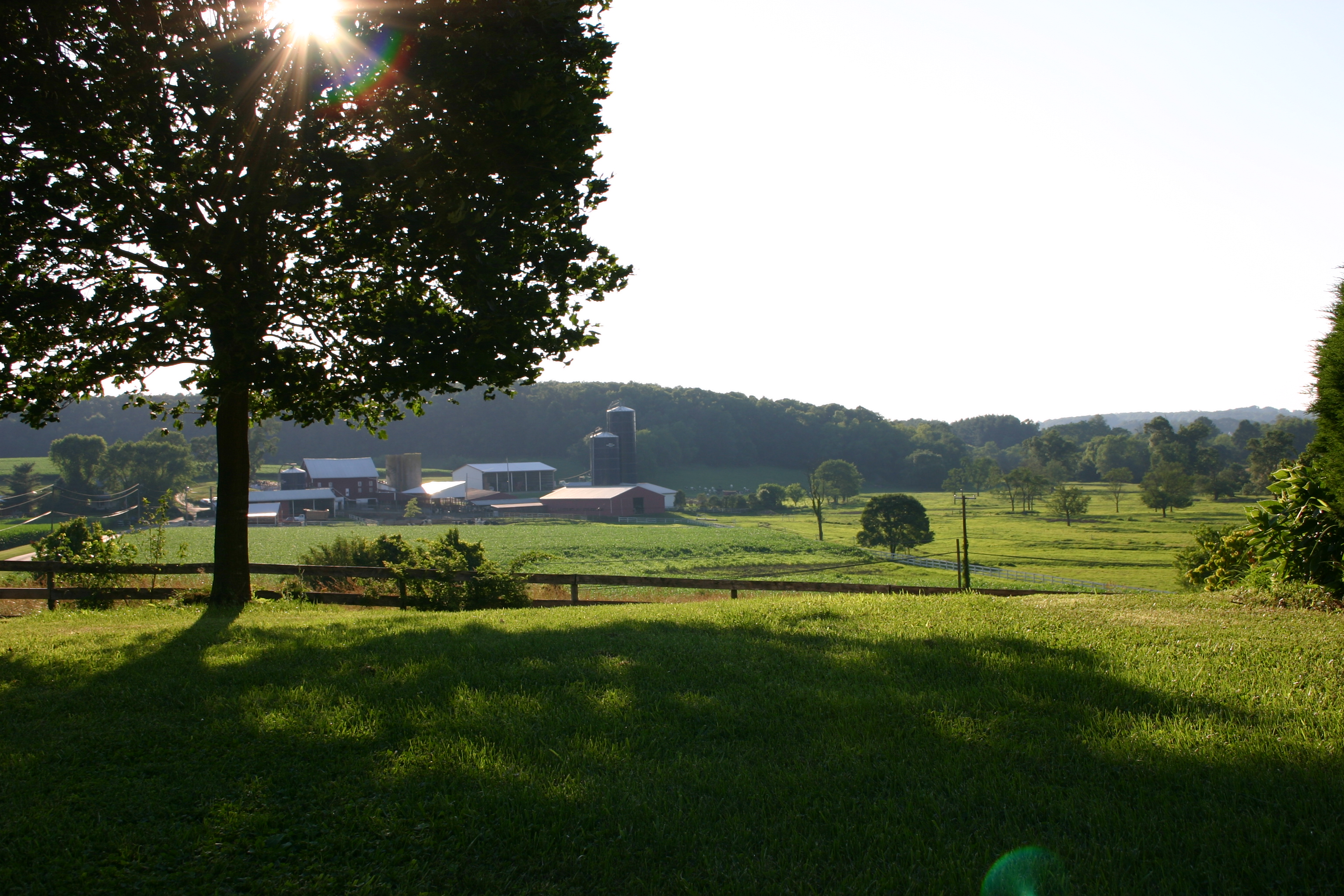 Dairy farm in Lisbon, Maryland on Daisy Road. I took this picture.